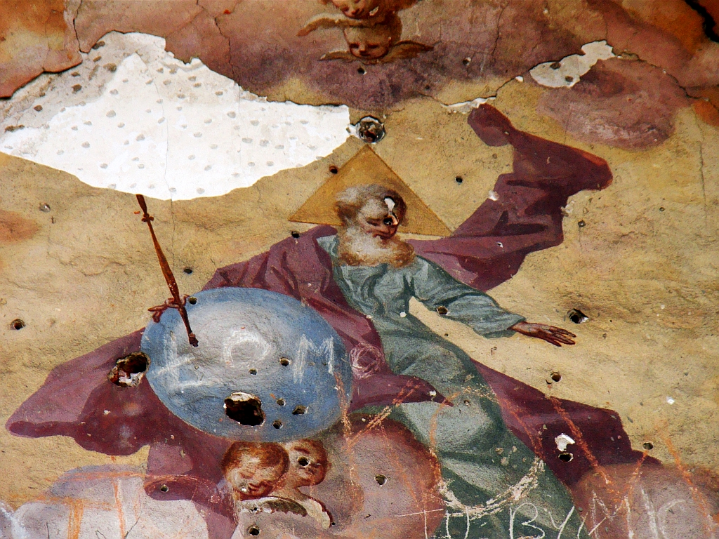 Zagórz